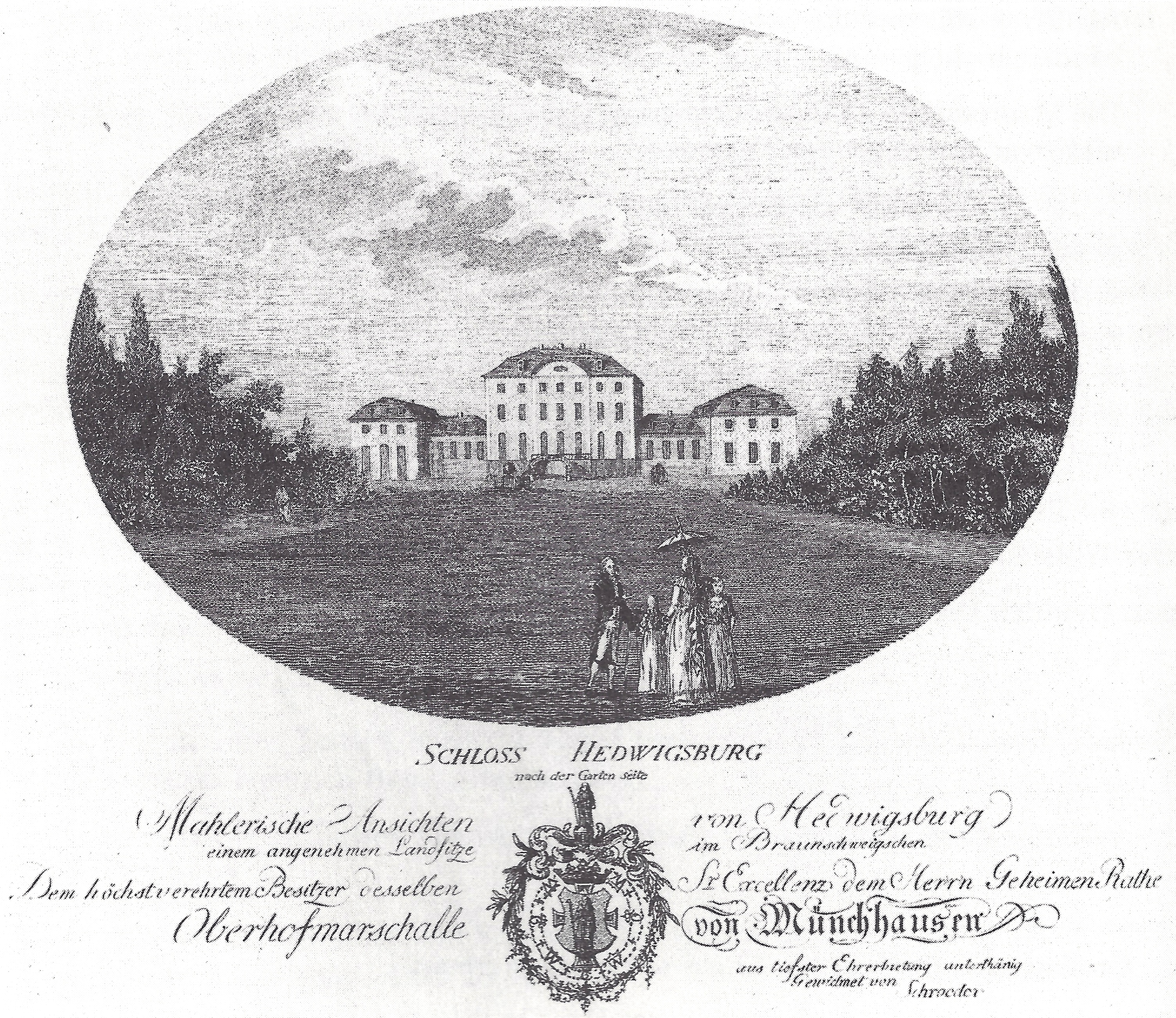 View of Castle hedwigsburg (Kissenbrück, Landkreis Wolfenbüttel) in 1800